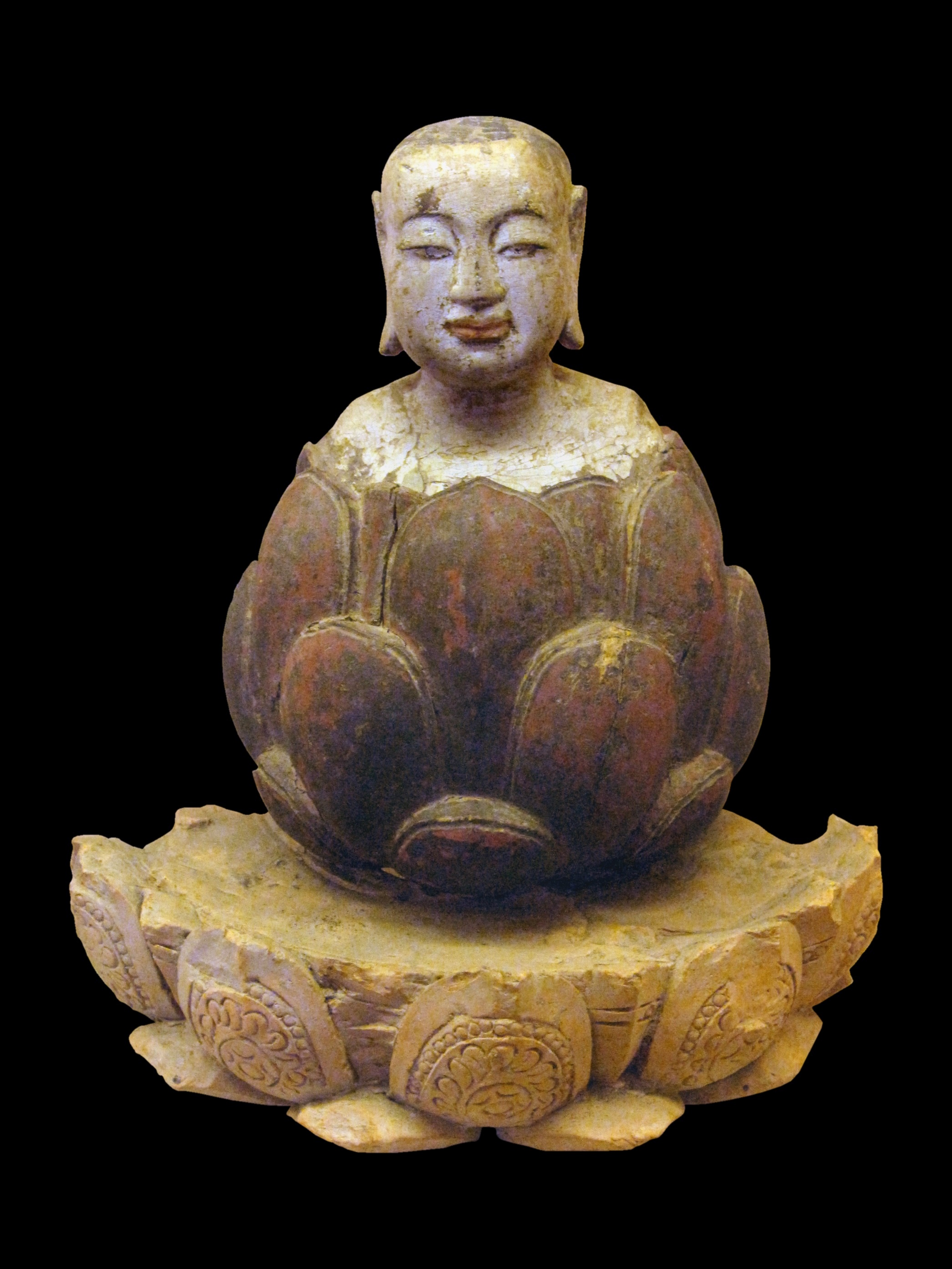 The boy Buddha rising up from lotus. Crimson and gilded wood, Trần-Hồ dynasty, 14th-15th century. Statue for worship. National Museum of Vietnamese History, Hanoi.